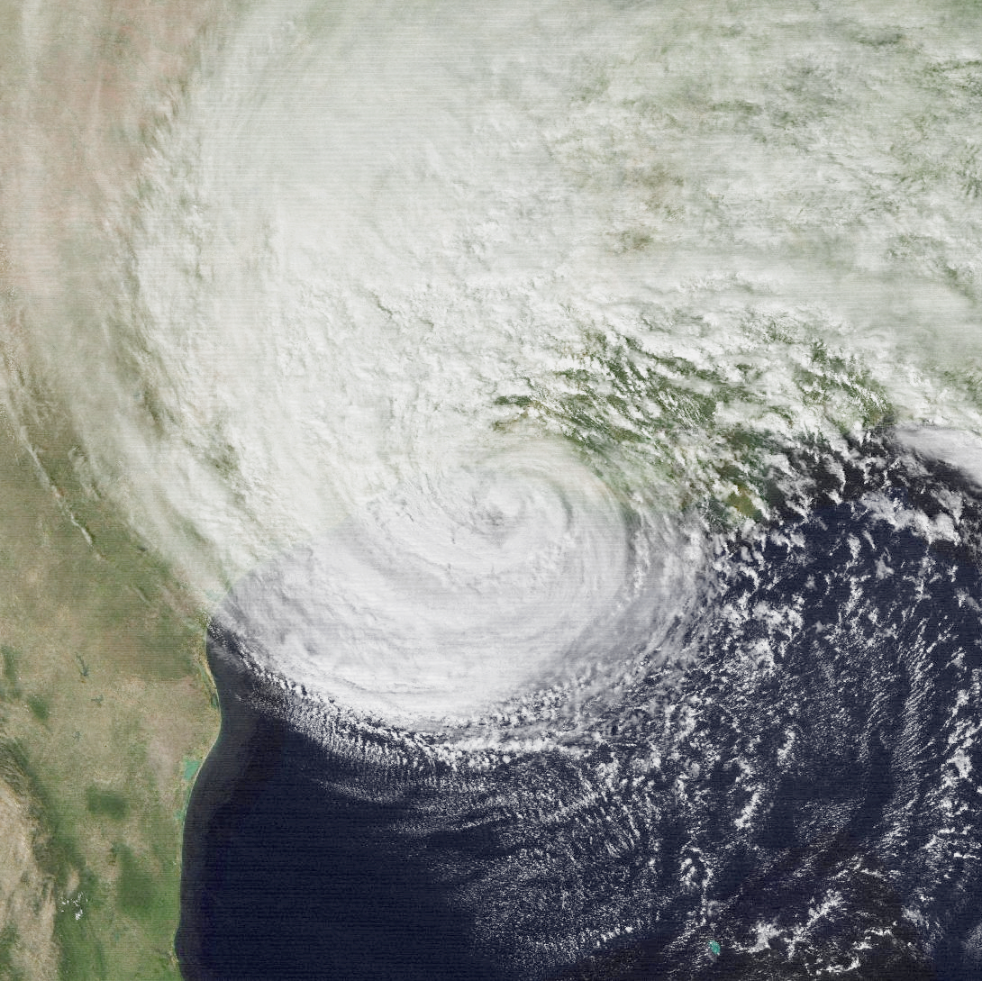 Hurricane Juan near peak intensity off the coast of Texas on October 28, 1985